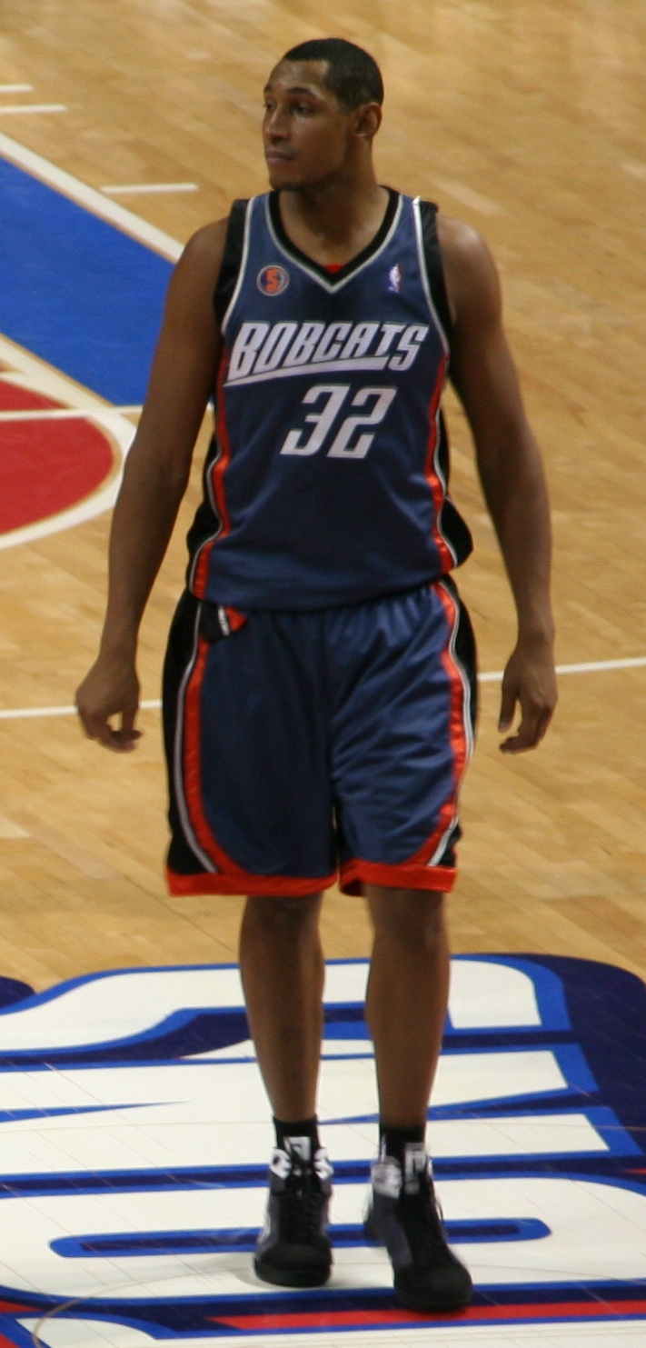 Emeka Okafor, Raymond Felton and Boris Diaw